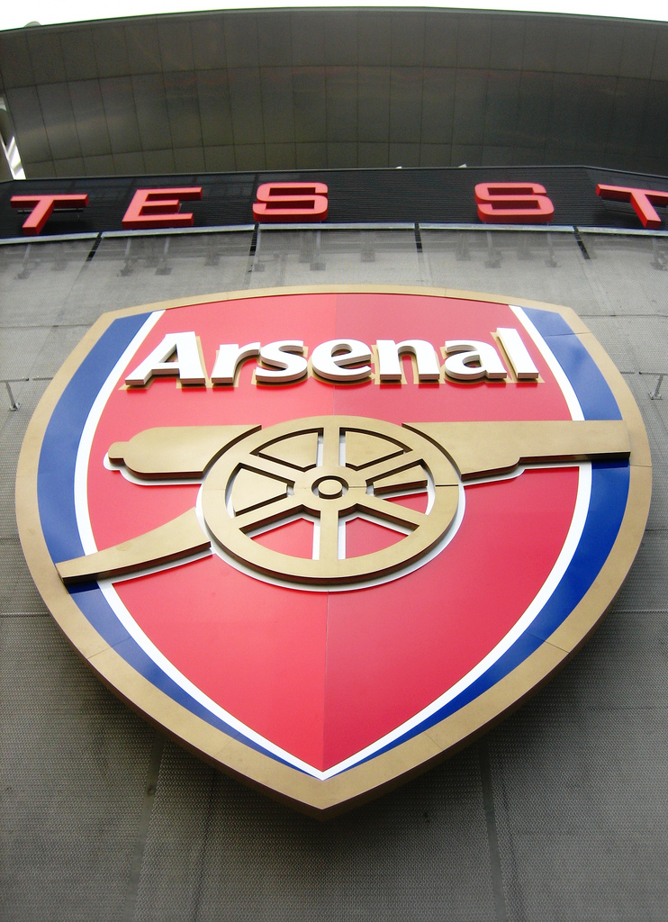 Arsenal logo at the Emirates Stadium